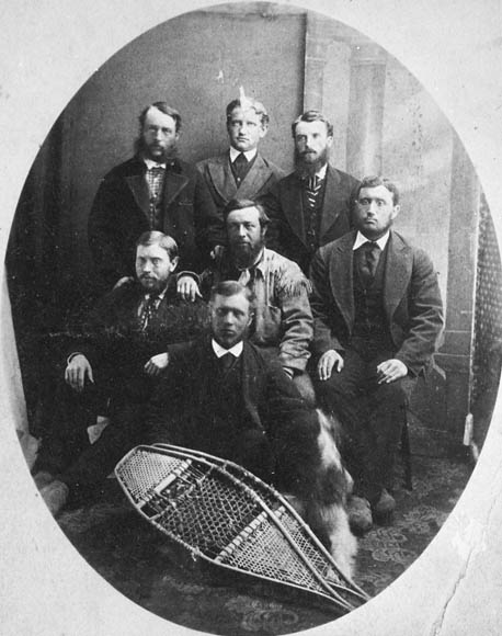 Unidentified Engineers of the Canadian Pacific Railway Survey, 1872. Photo from the collection of Duncan Eberts MacIntyre. Online from Library and Archives Canada [1]